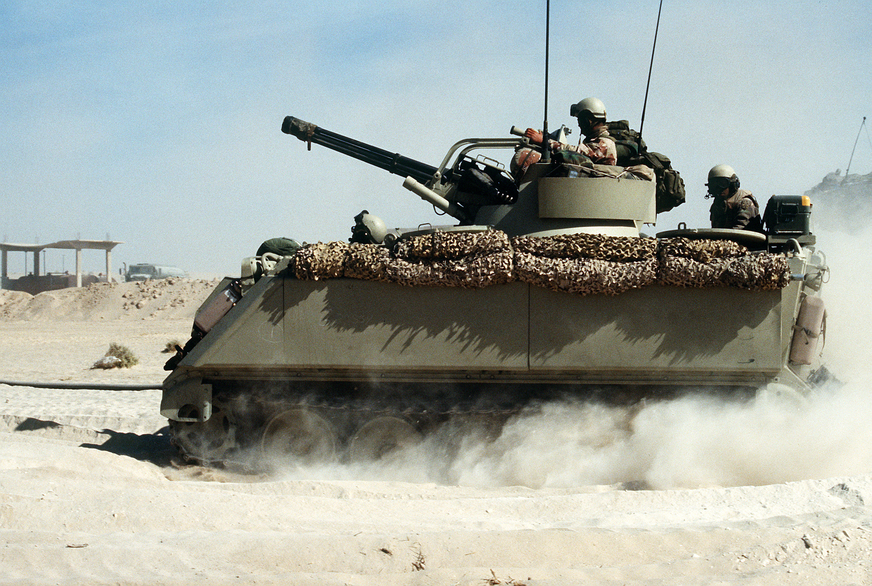 Soldiers of the 1st Battalion, 3rd Armored Cavalry Regiment drive an M-163 20mm Vulcan self-propelled anti-aircraft gun system to a refueling area during Operation Desert Shield.